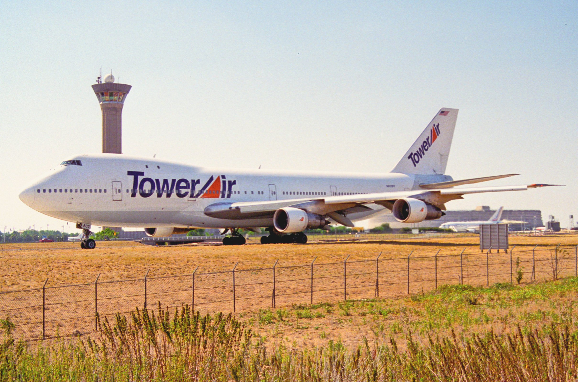 This Boeing 747-130 was Lufthansa's first Jumbo (c/n: 19746/ 12, first flight: February 18, 1970, delivered March 10, 1970). The four-holer spent only eight years with the German carrier. From November 1978 until July 1982 the 747 was operated by Braniff Airways. In 1982 the Boeing was registered N480GX and was briefly in service for Viasa, Overseas National Airways and Egypt Air. In 1984 the 12th 747 built was integrated into Transamerica's fleet, as N780T. In November 1985 the Jumbo received its final registration, N603FF. The long-haul aircraft flew for Tower Air (being leased out for Zambia Airways and Saudi Arabian Airlines in between) until 1999. In 2001 the 747 was scrapped at Tower Air's home base, New York JFK...